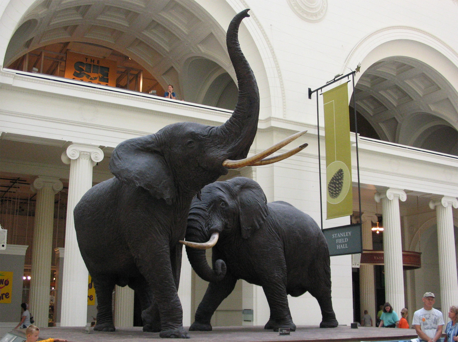 The photograph was taken in August 2005 by the uploader. It is a photograph in the Field Museum of Natural History at Chicago, Illinois.